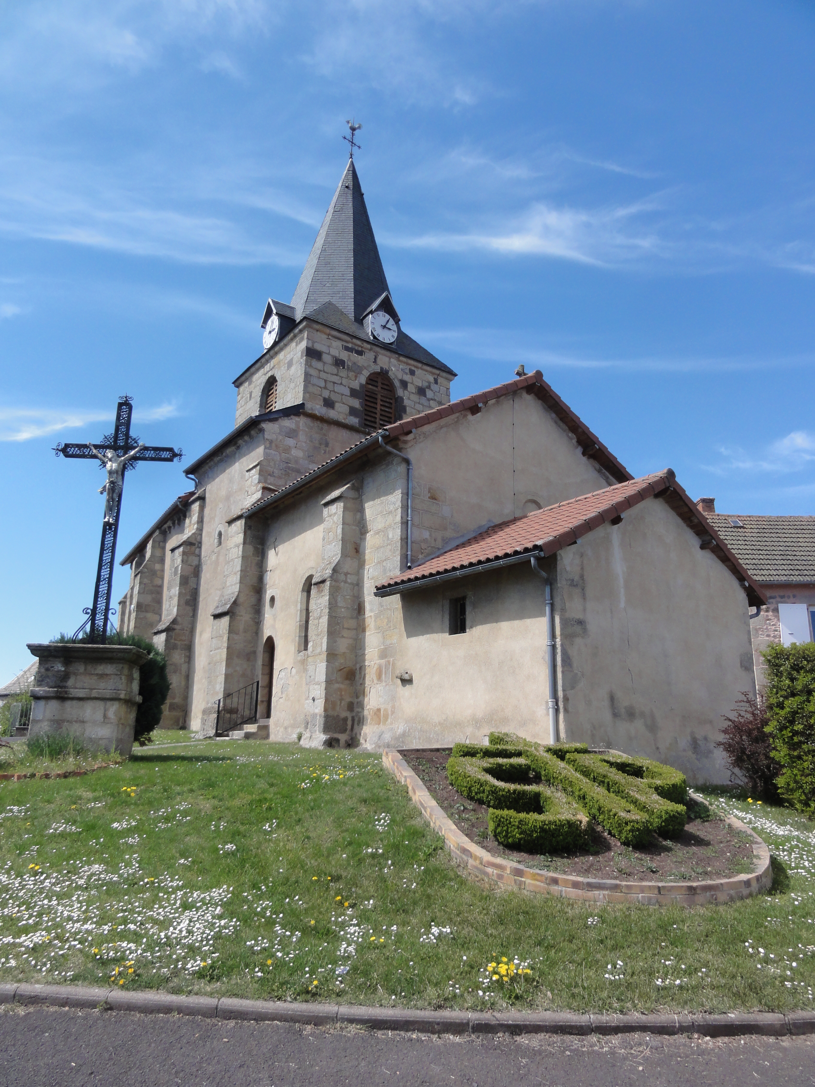 Saint-Priest-des-Champs (Puy-de-Dôme) église